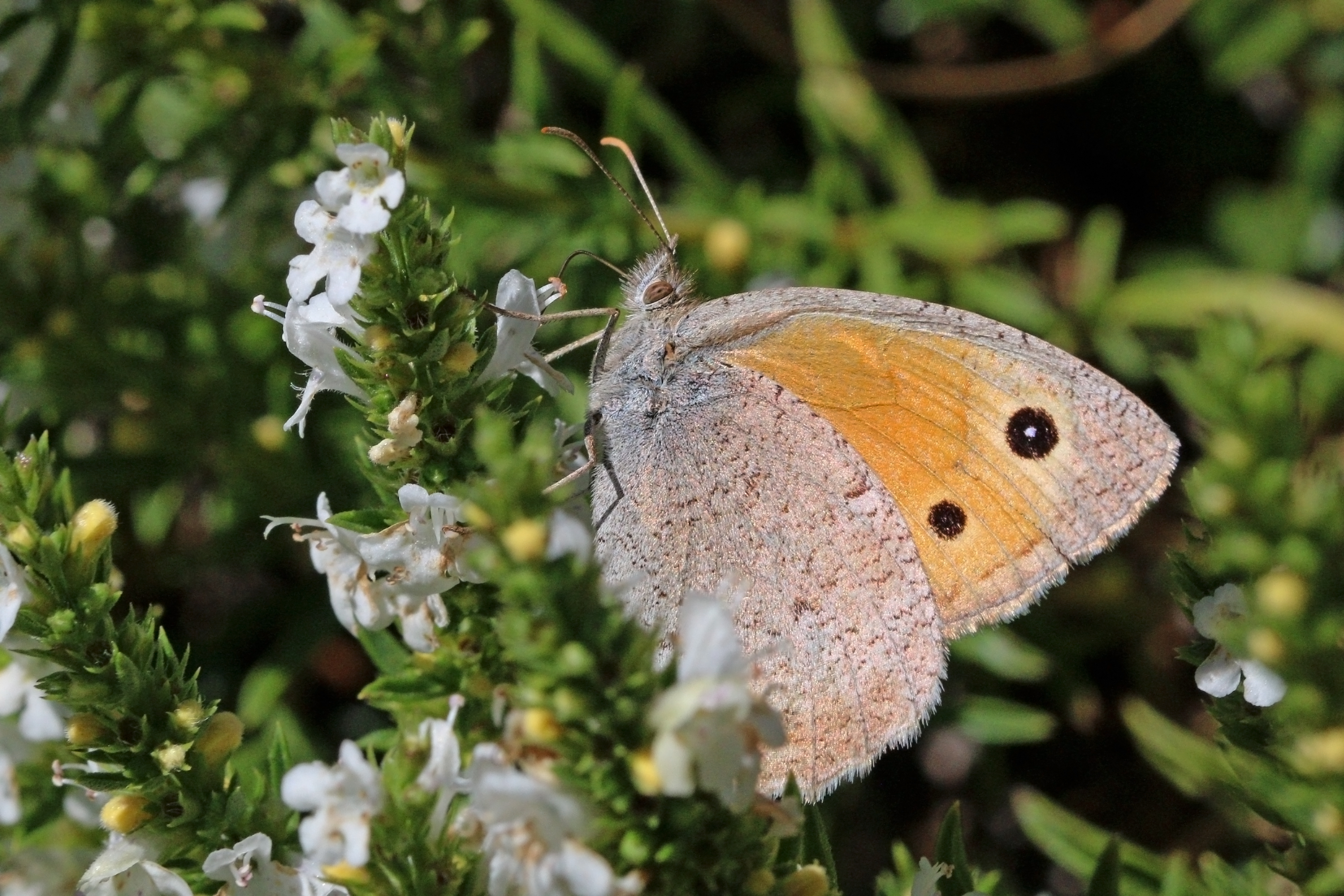 Dusky meadow brown (Hyponephele lycaon) female, Macedonia